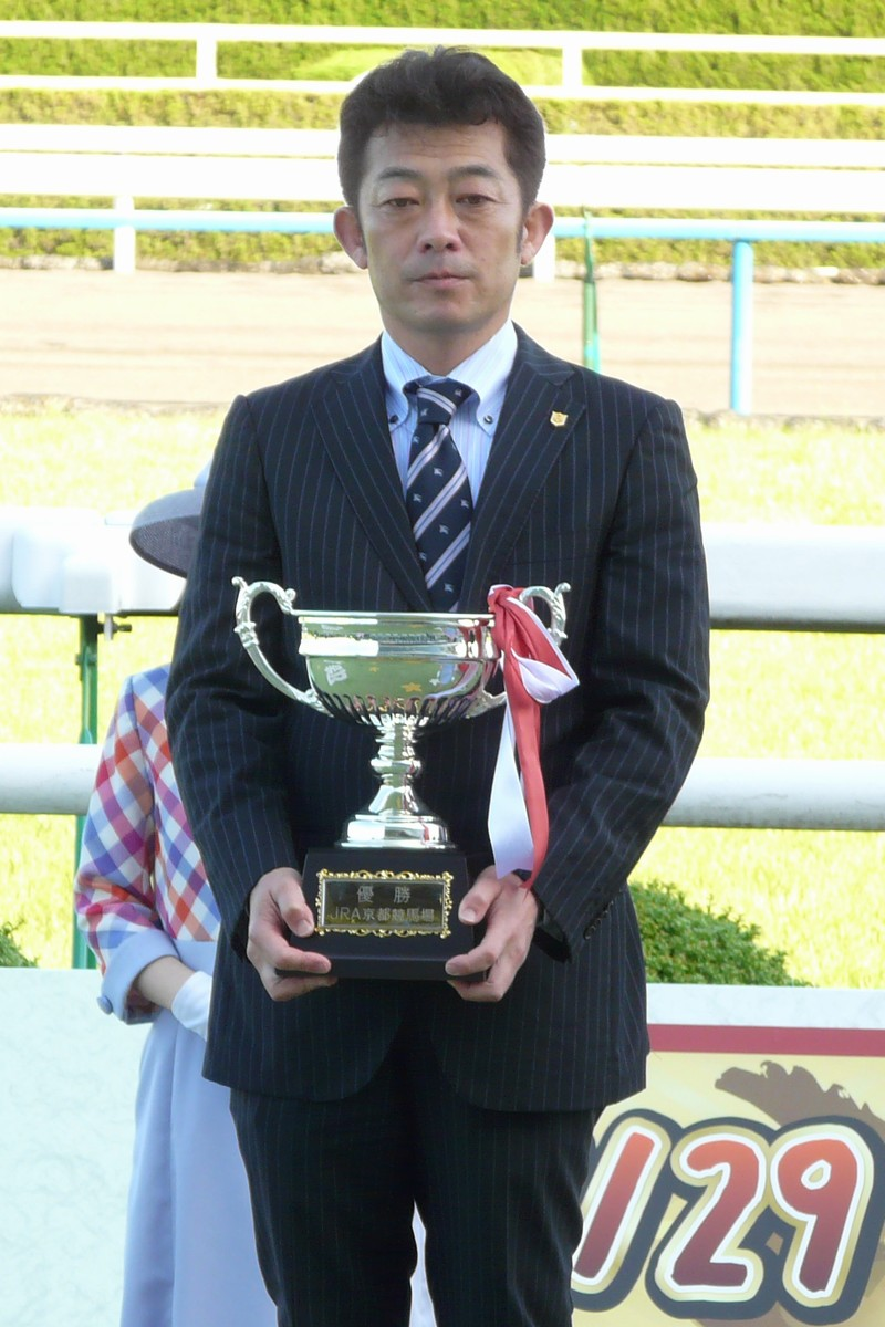 Yasuo-Tomomichi20100529